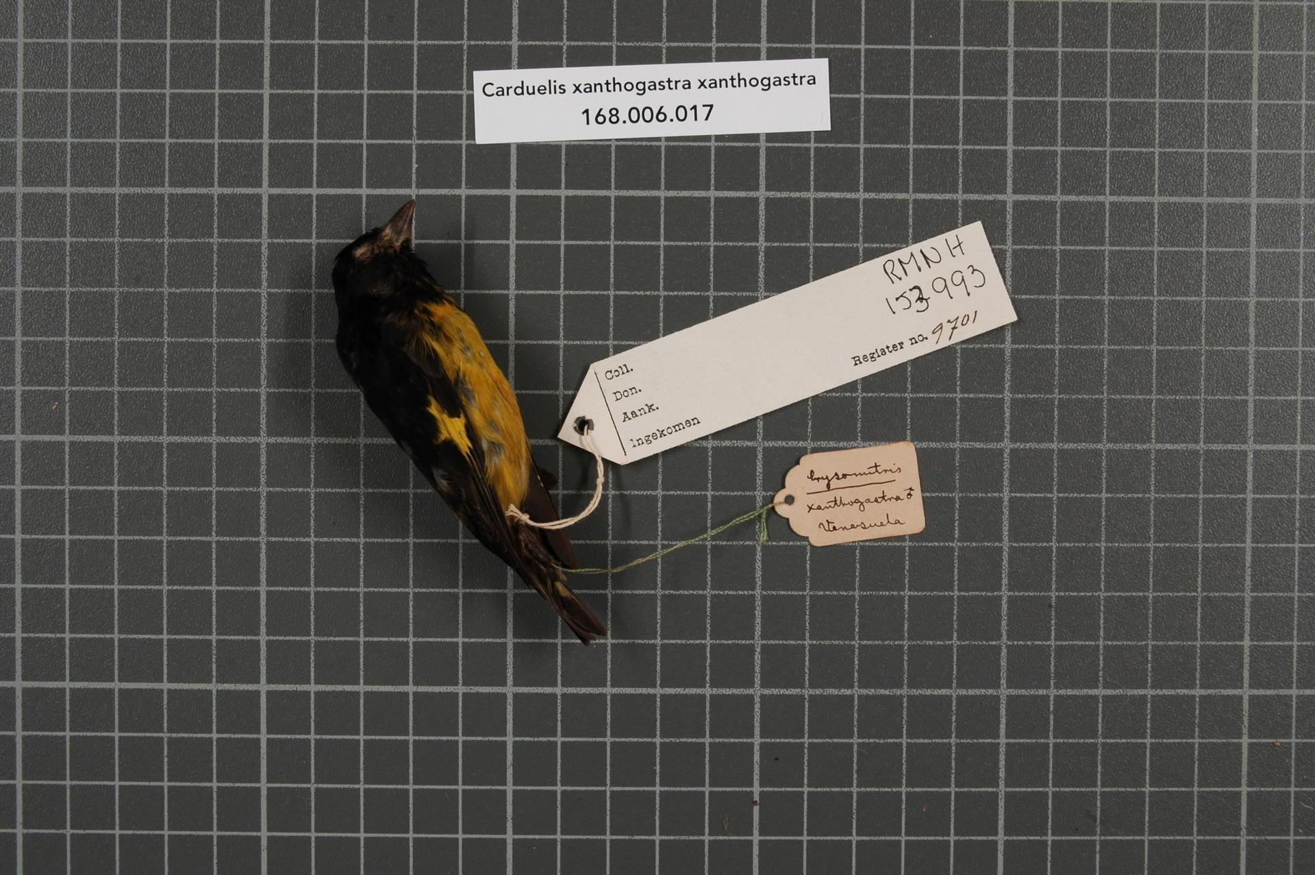 Carduelis xanthogastra xanthogastra Du Bus, 1855